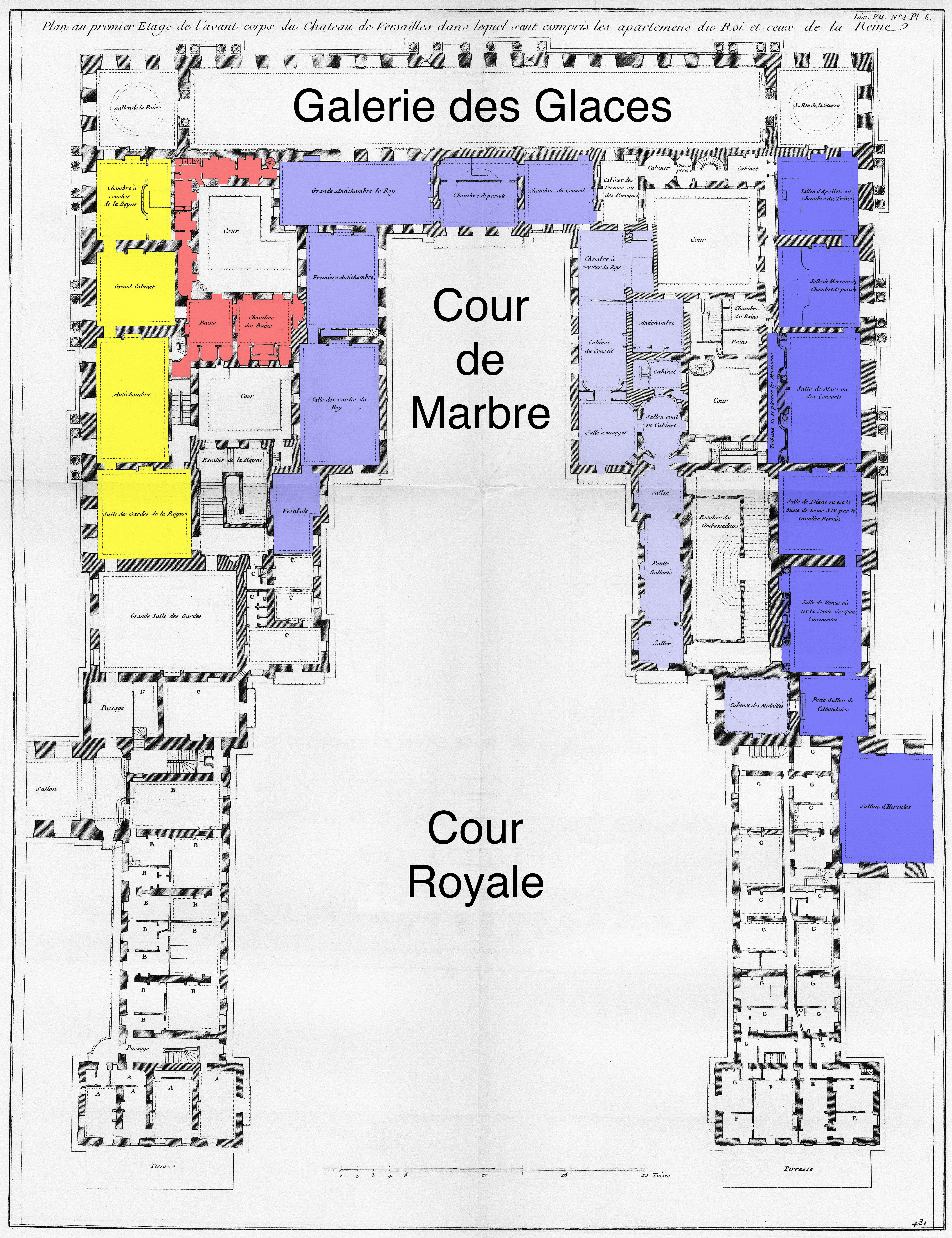 Plate 8. The Palace of Versailles in France: plan of the main floor (premier étage) of the central part of the palace. From J.-F. Blondel's Architecture françoise, Tome 4, Livre 7. For Blondel's discussion of this plate (in French), see p. 131 of tome 4 (at Gallica). The original image has been modified. The locations of the royal apartments are color coded: Grand appartement du Roi (dark blue) Appartement du roi (medium blue) Petit appartement du roi (light blue) Grand appartement de la reine (yellow) Petit appartement de la reine (red)